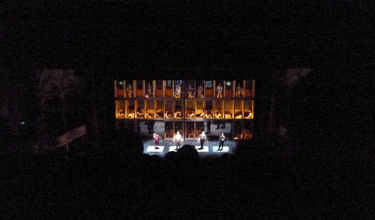 Doctor Atomic